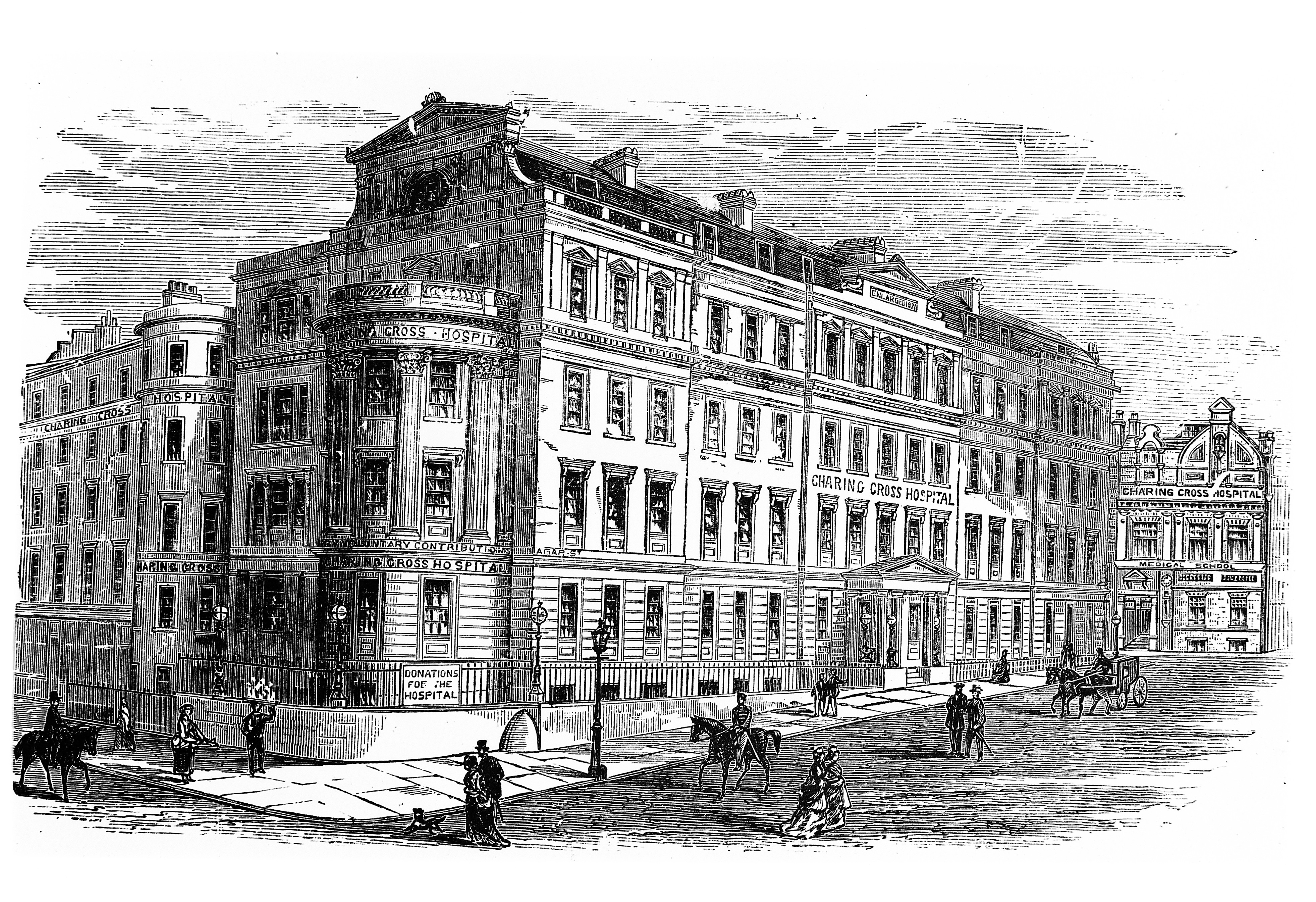 Charing Cross Hospital and Medical School, 1881. General Collections Keywords: charing cross hospital